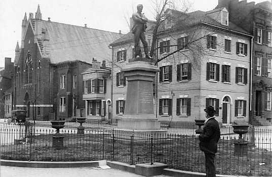 Erected in 1889 by Confederate Veterans of the Civil War and designed by M. Gasper Buberl Washington Street, Alexandria, Virginia View of a man looking at the Confederate Monument on Washington Street in Alexandria Virginia Ca. 1920